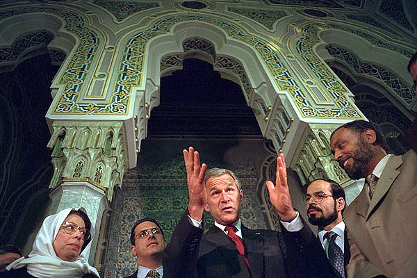 President George Bush talks with his hosts during a visit to the Islamic Center of Washington, D.C.